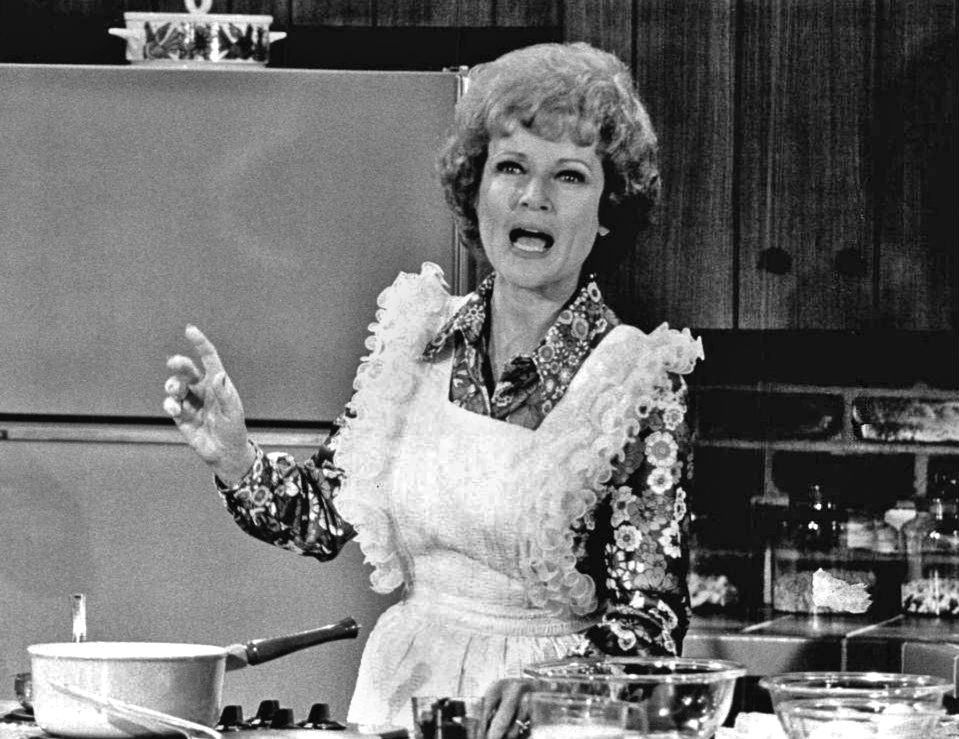 Photo of Betty White as Sue Ann Nivens, hostess of the WJM-TV "Happy Homemaker" show, from the television program The Mary Tyler Moore Show.